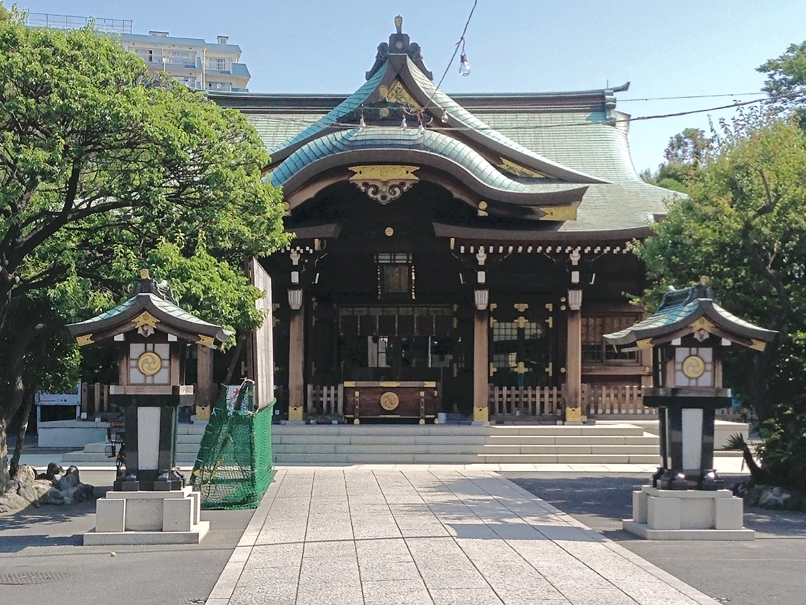 Shaden of Rokugo-Jinja